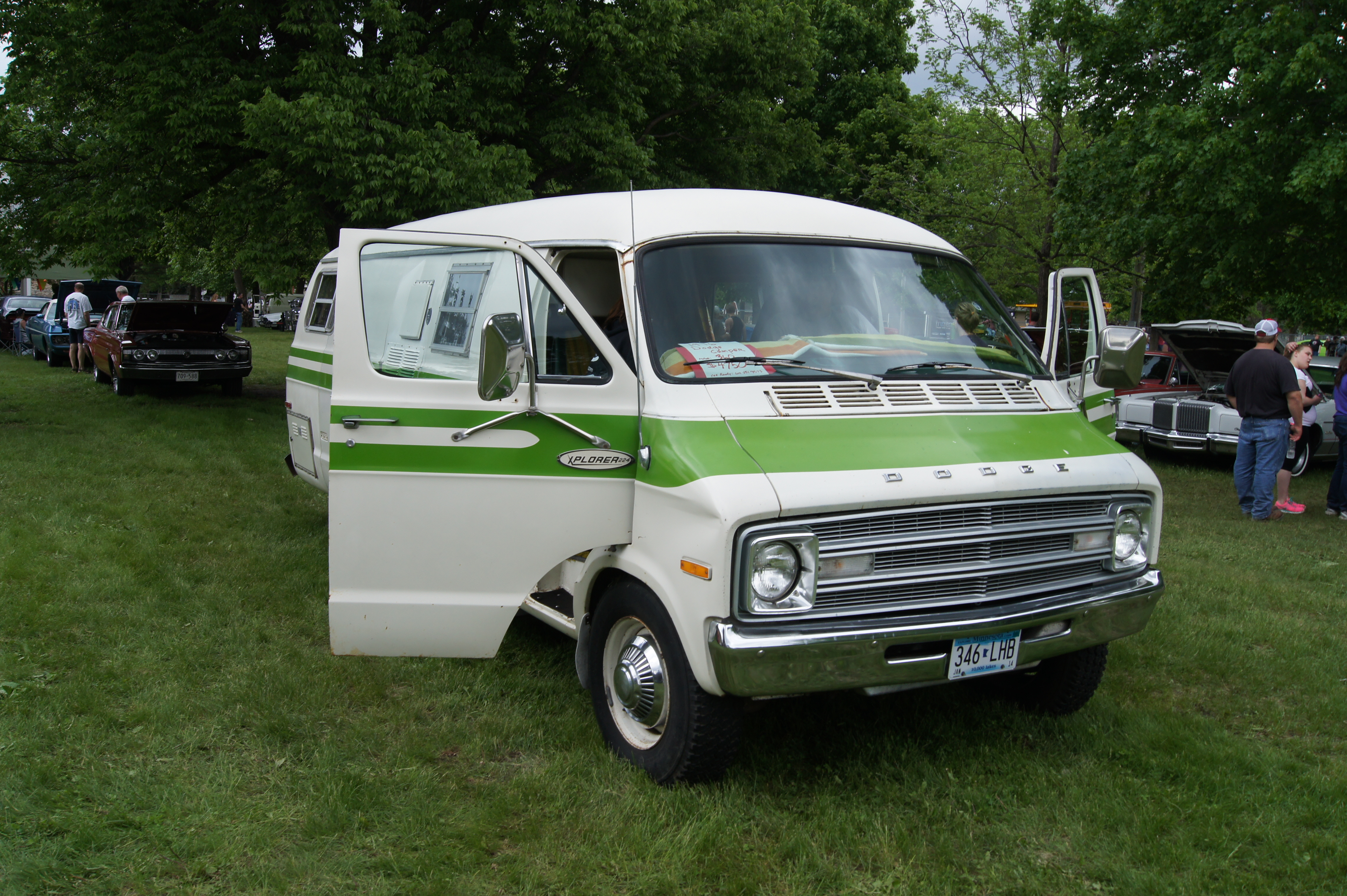 29th Annual Midwest Mopars in the Park Car Show & Swap Meet June 1-2, 2013 Dakota County Fairgrounds Farmington, MN Thousands of car pictures at the link below